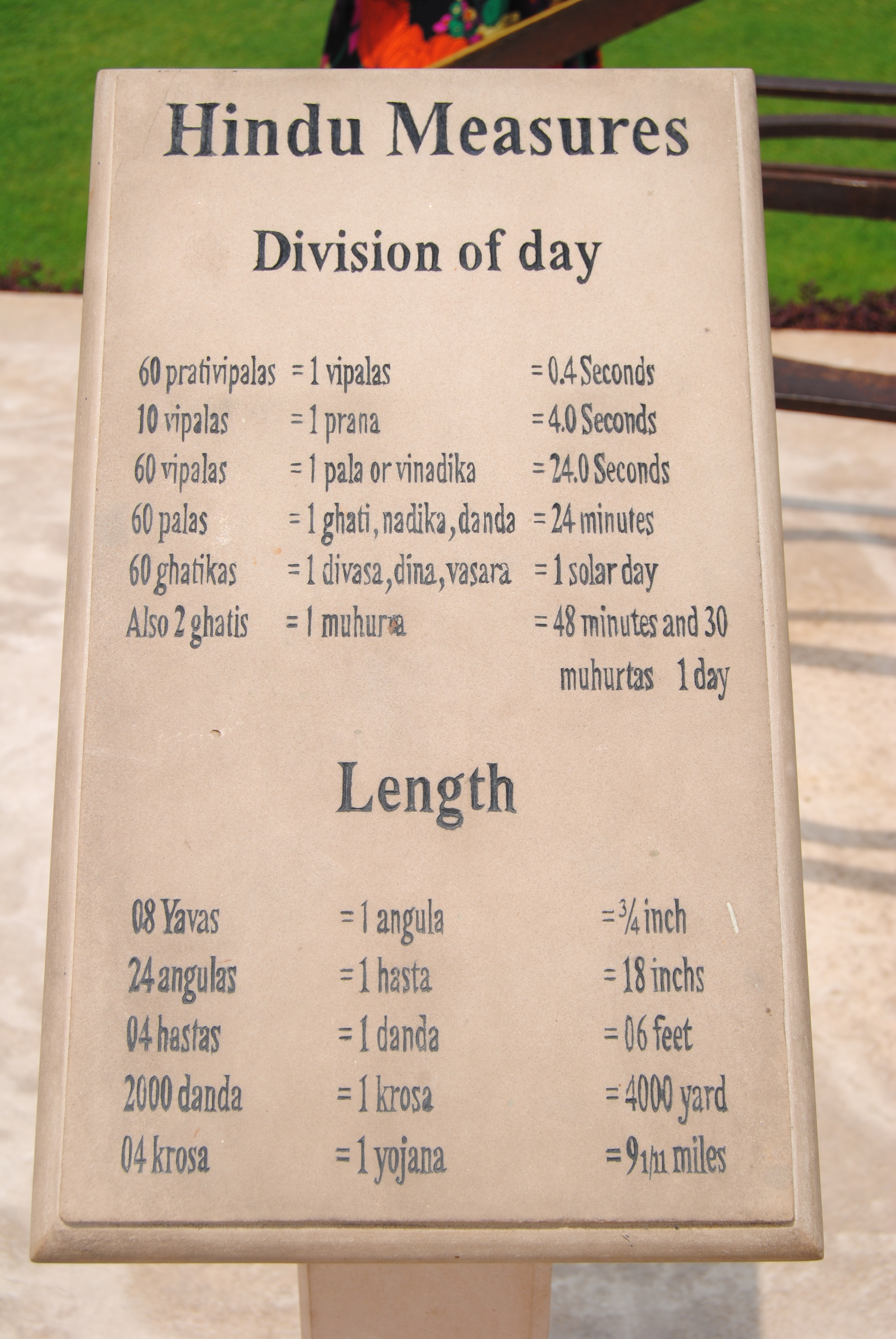 Picture taken with own camera from measurment scription on the jaipur jantar mantar from 1735